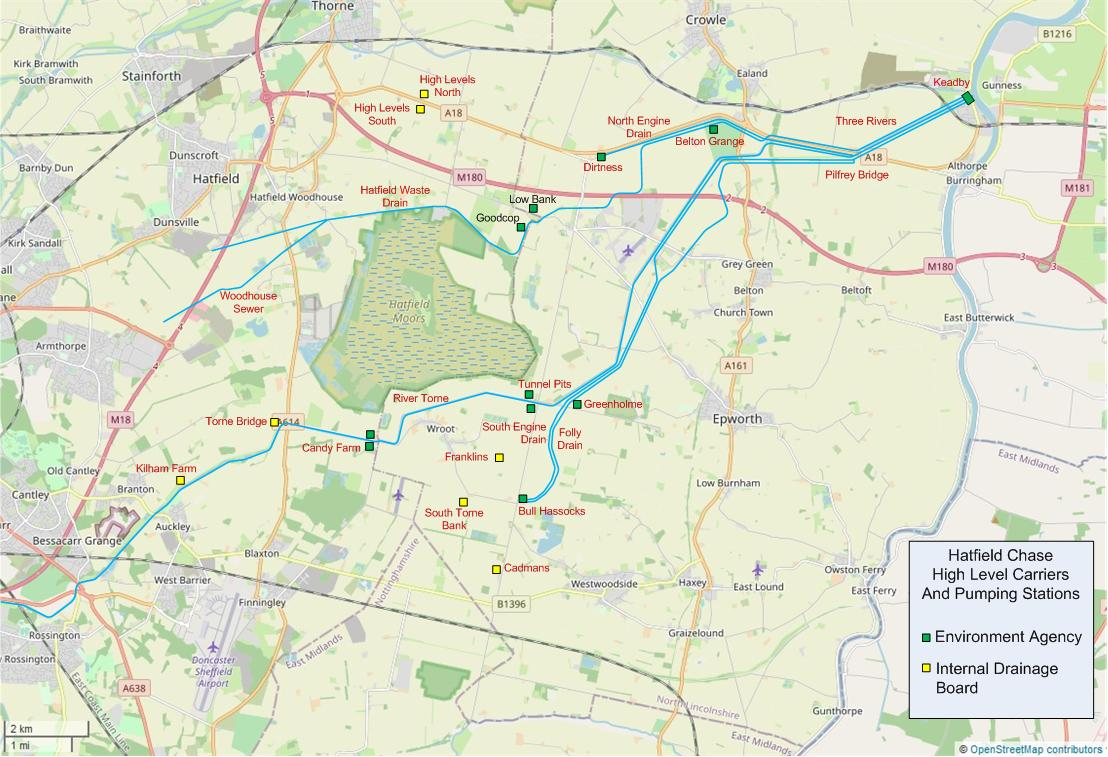 Map of Hatfield Chase, England showing Internal Drainage Board area, high level carriers and pumping stations